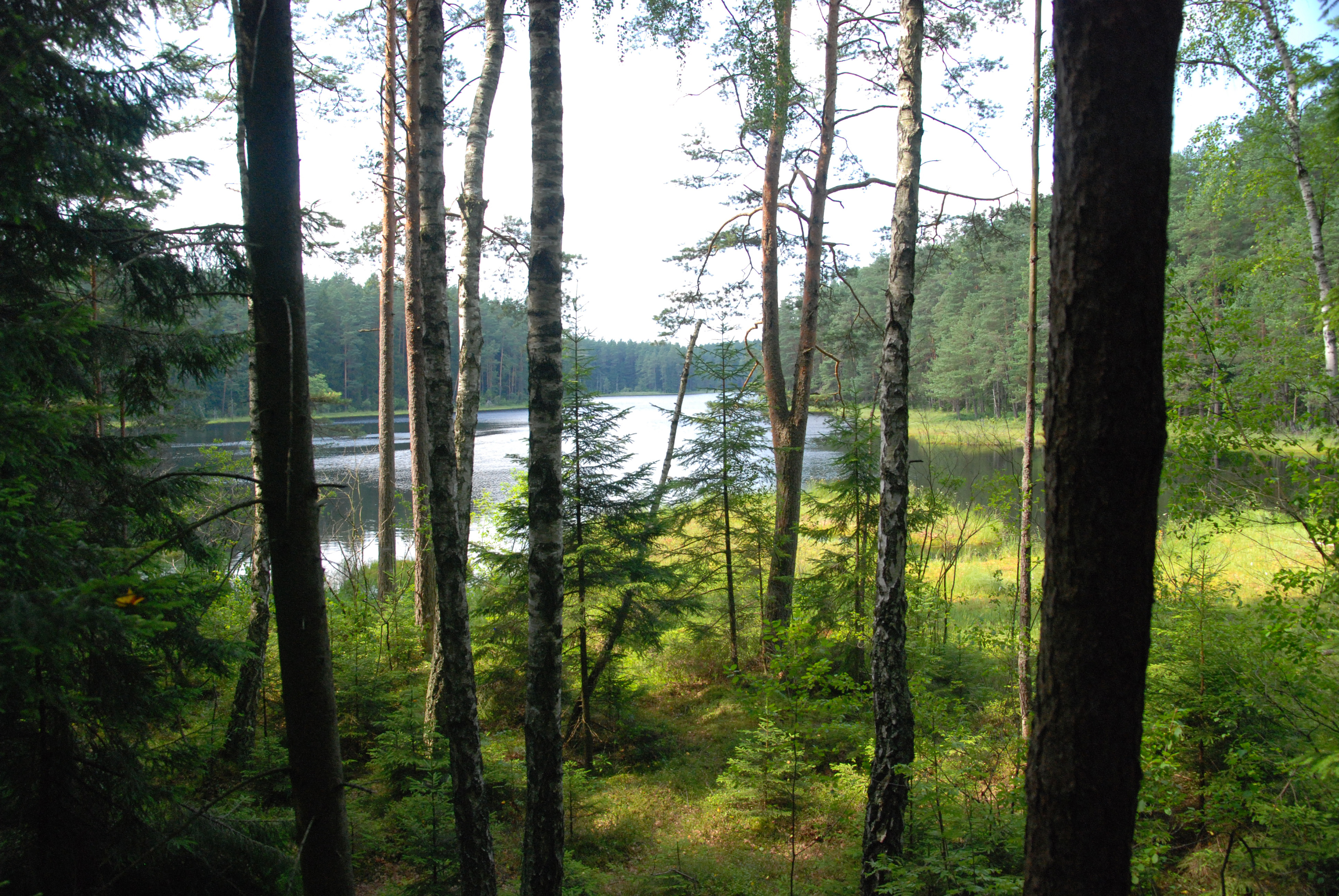 This photo from Podlaskie Voievodeship was taken during Polish Wikiexpedition 2009 set up by Wikimedia Polska Association. The making of this document was supported by Wikimedia Polska. Torfowisko Suchar Wielki